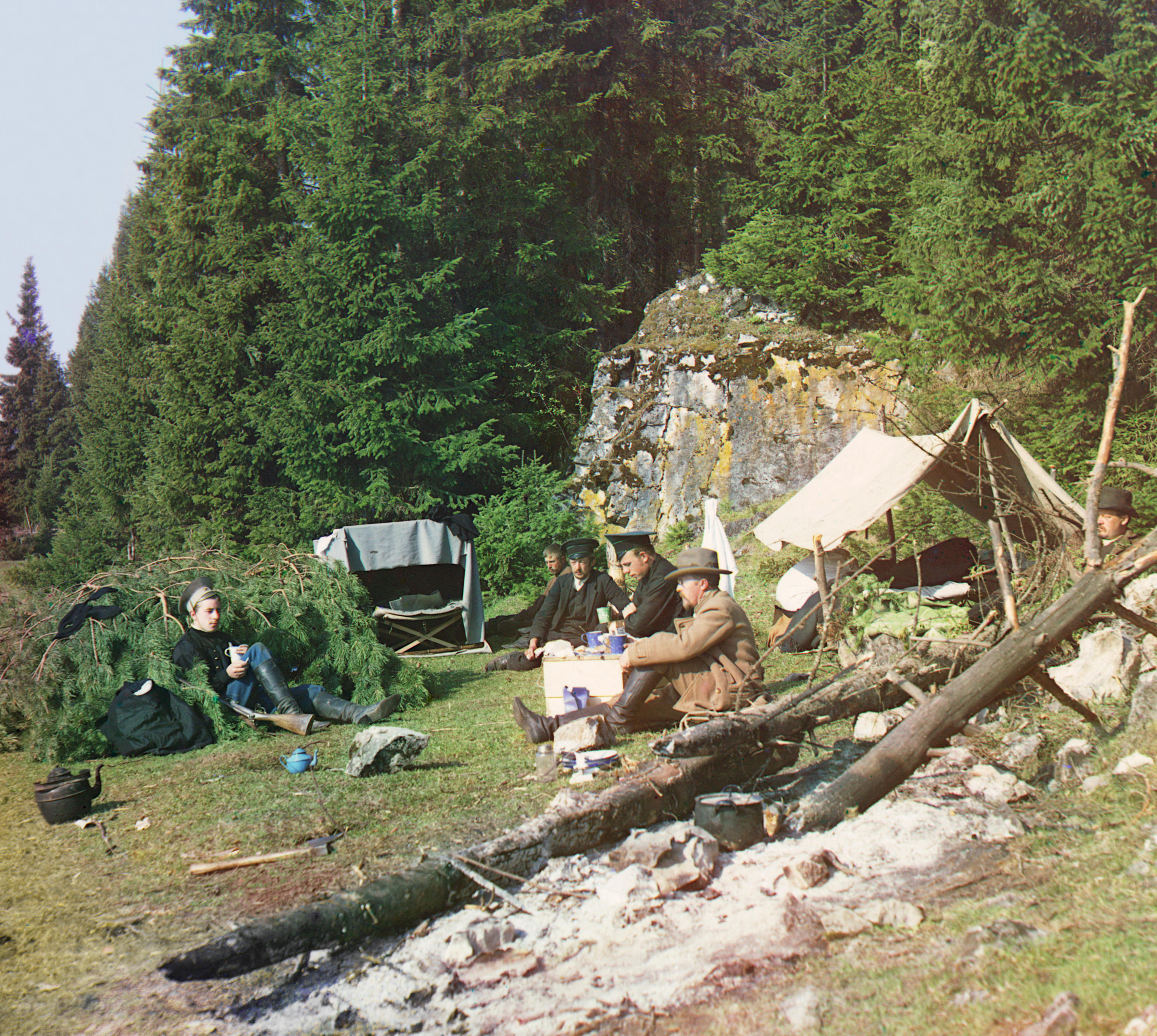 Sergei Mikhailovich Prokudin-Gorskii - Night camp by a rock on the bank of the Chusovaia. 1912.